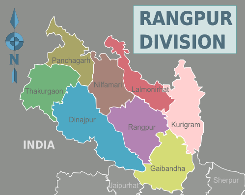 Colour-coded map of the districts of Rangpur Division in Bangladesh (Wikivoyage regional scheme), English version